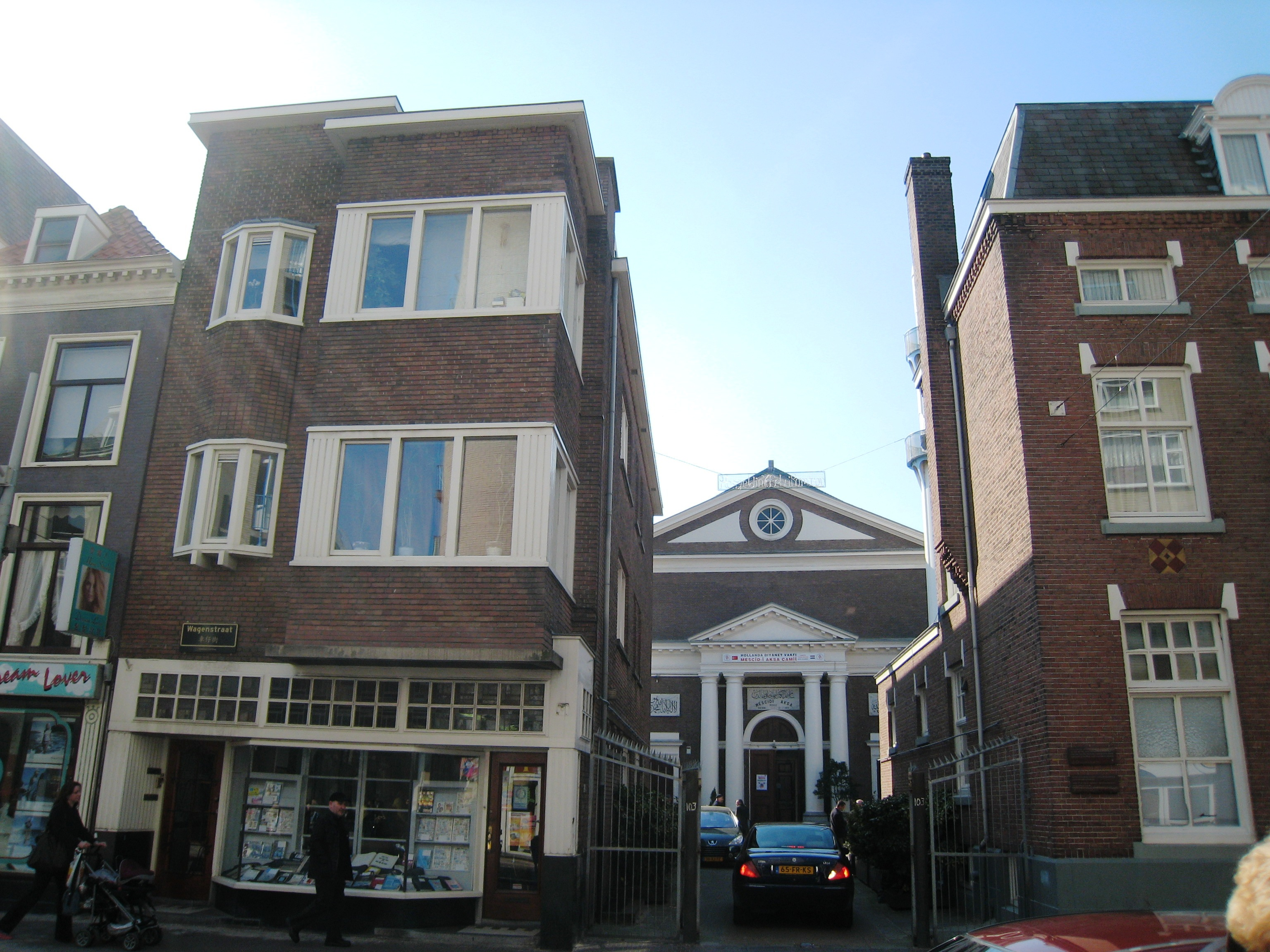 mosque in the Wagenstraat, The Hague Chinatown